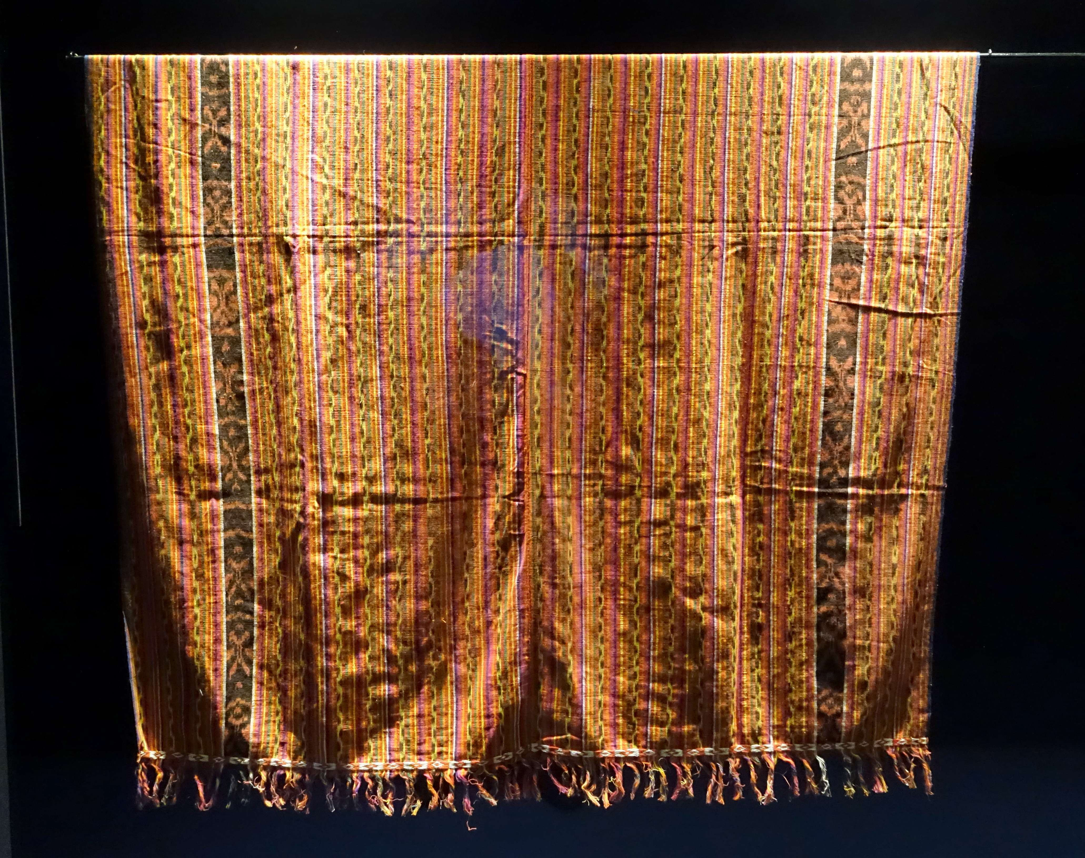 Exhibit in the Museu do Oriente - Lisbon, Portugal. This work is old enough so that it is in the public domain.